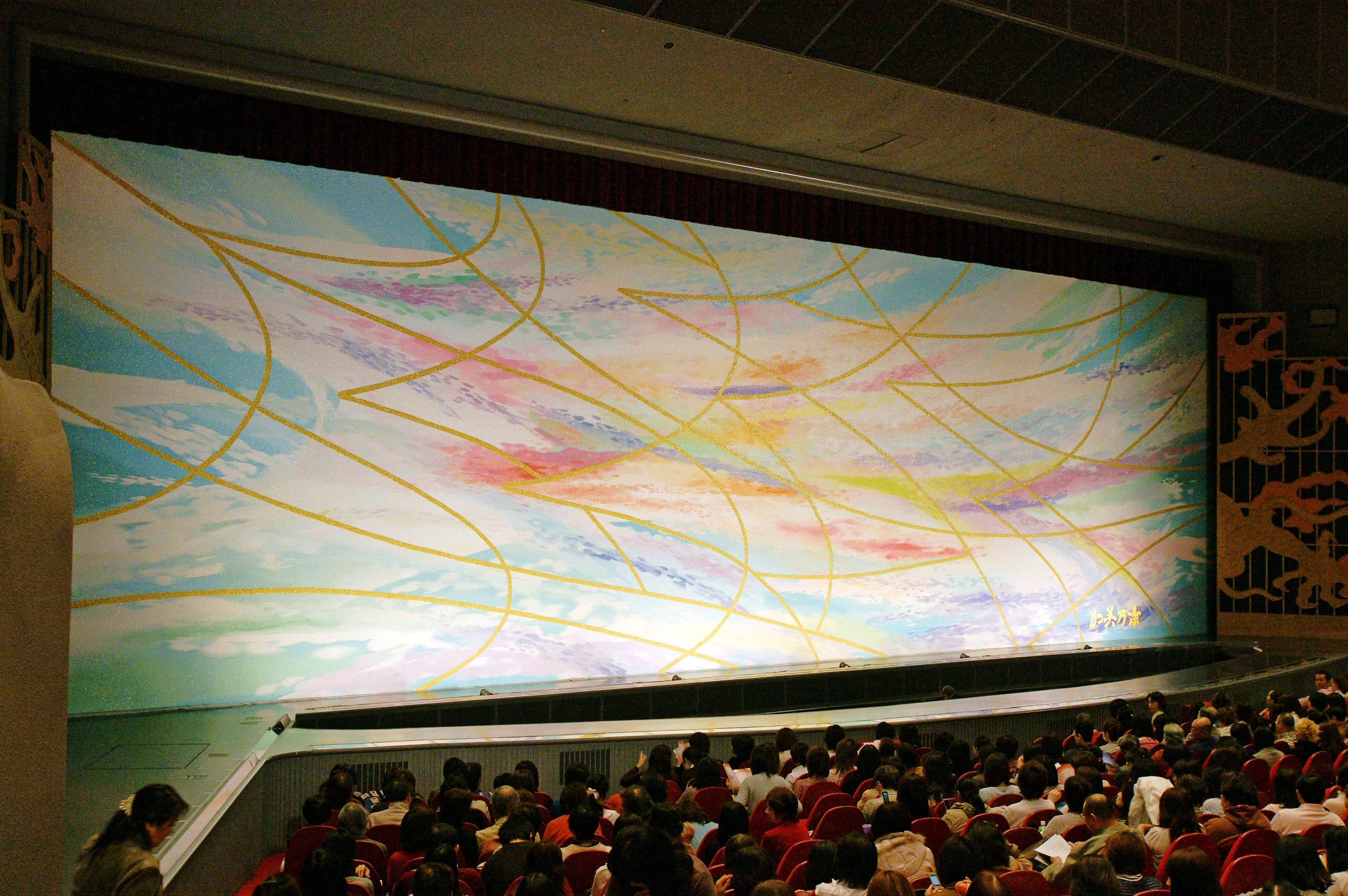 Takarazuka Grand Theater in Takarazuka, Hyogo prefecture, Japan